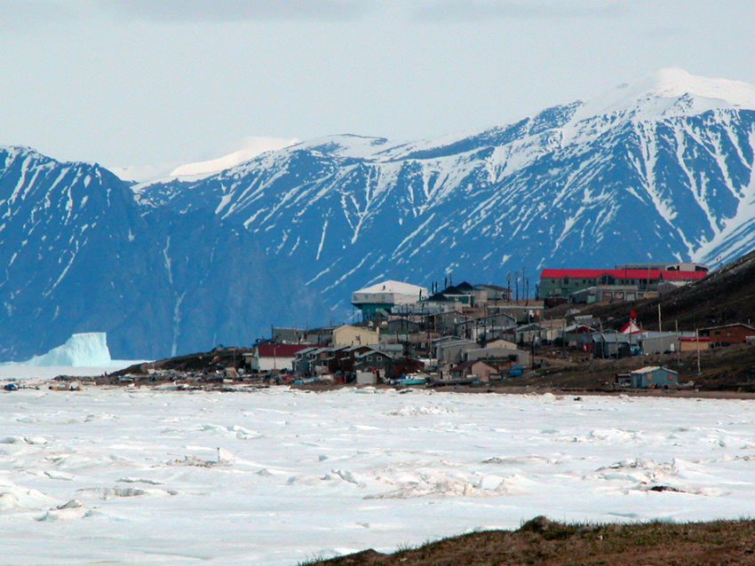 Photo of Pond Inlet in mid June of 2005 from Salmon Creek, 3.5 kms West of the Hamlet. The mountains are 25kms away and the iceberg is 9kms from town. The community's library (large white roof) and Health Center (large red roof) are the most predominent structures in the photo. The building with the white sidding, marroon colored roof that is closest to the shore is reminance of the Hudson's Bay Company from early in the 20th century. Snowmobiles and qamotiqs can still be seen on the sea ice. Photo by Patrick B. McDermott